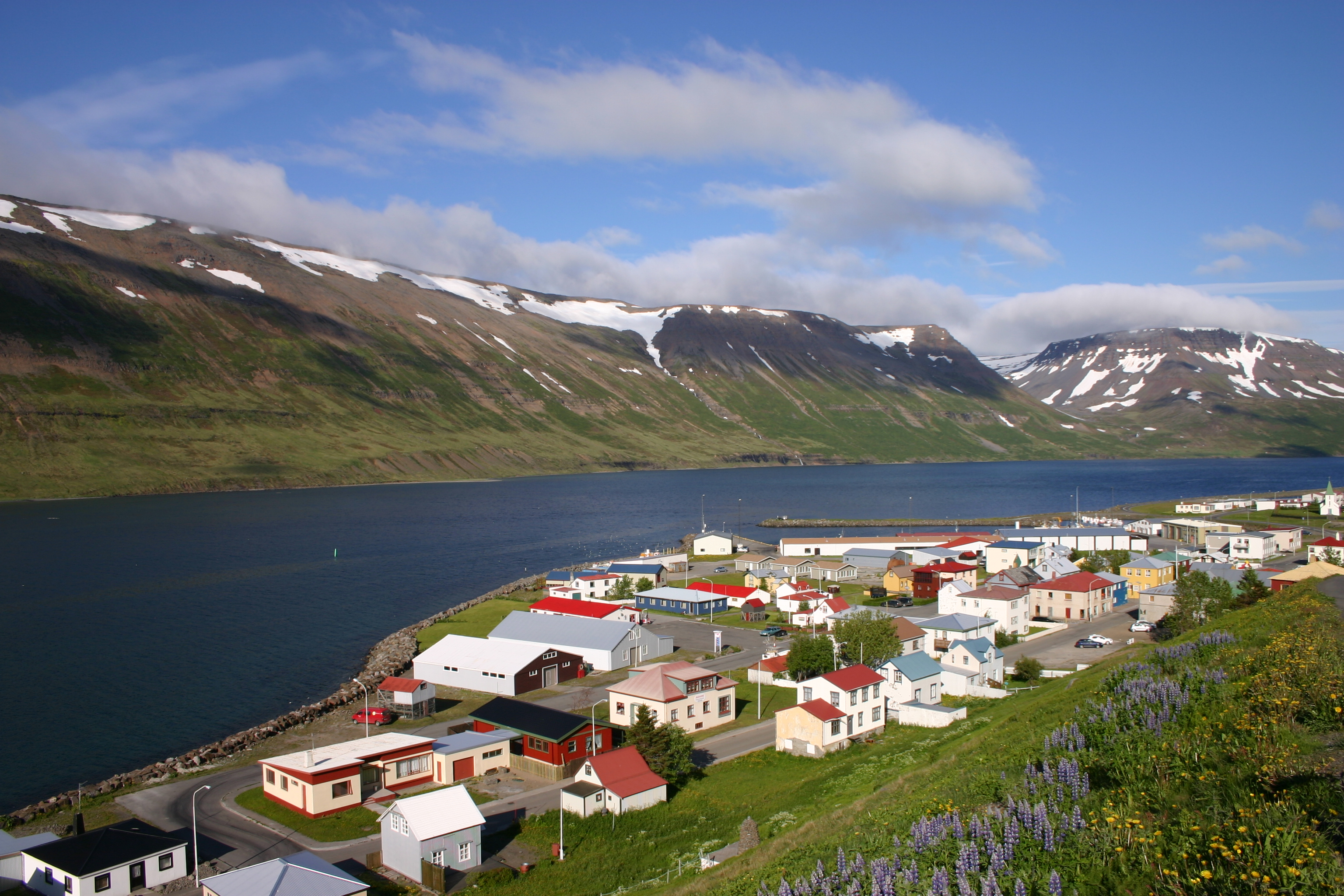 Suthureyri (Suðureyri), Iceland, June 2008.